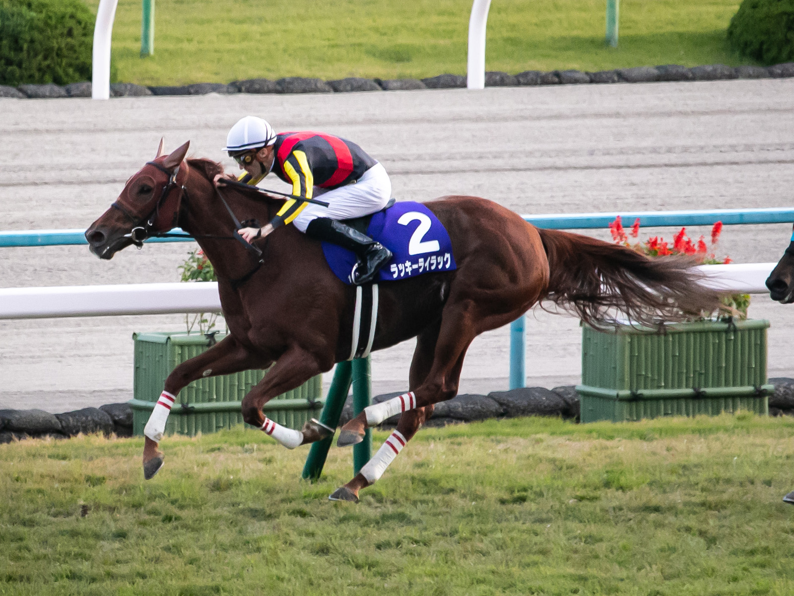 Lucky Lilac(JPN), Racehorse of Japan.